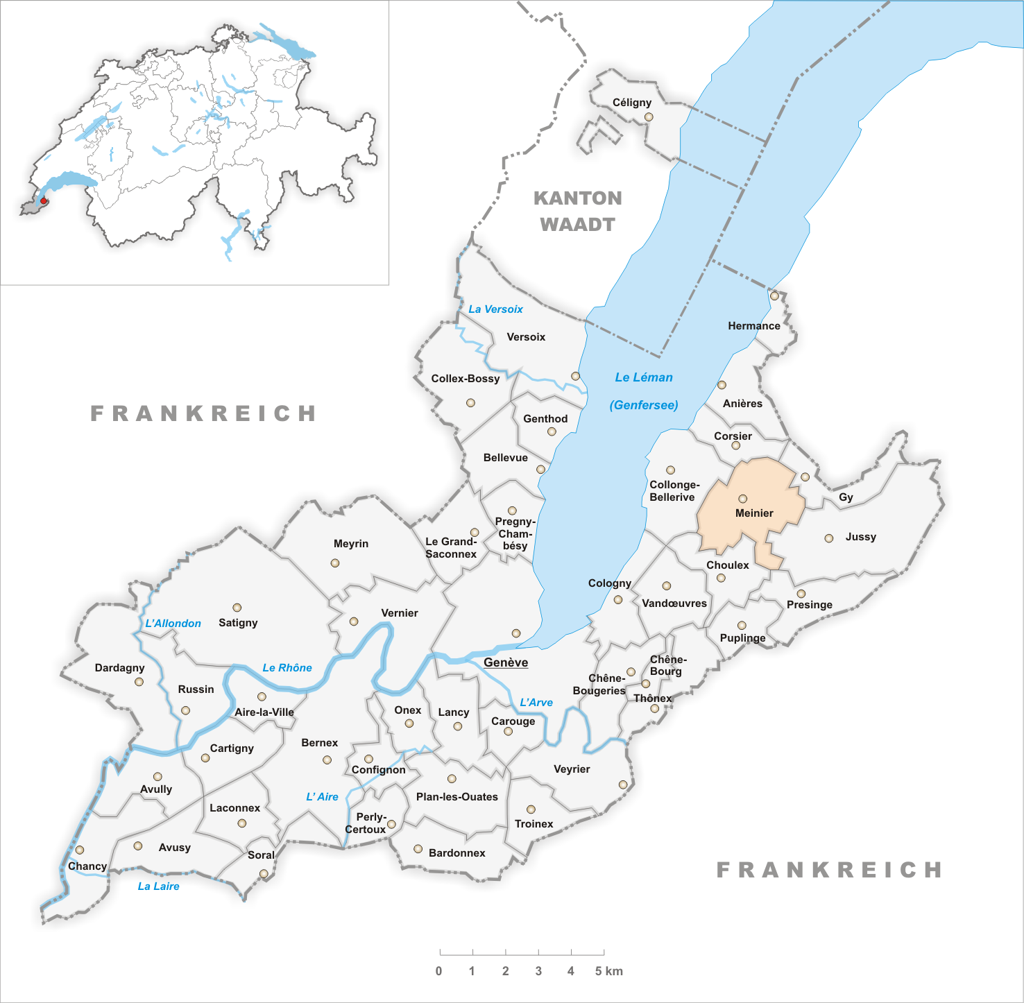 Municipality Meinier